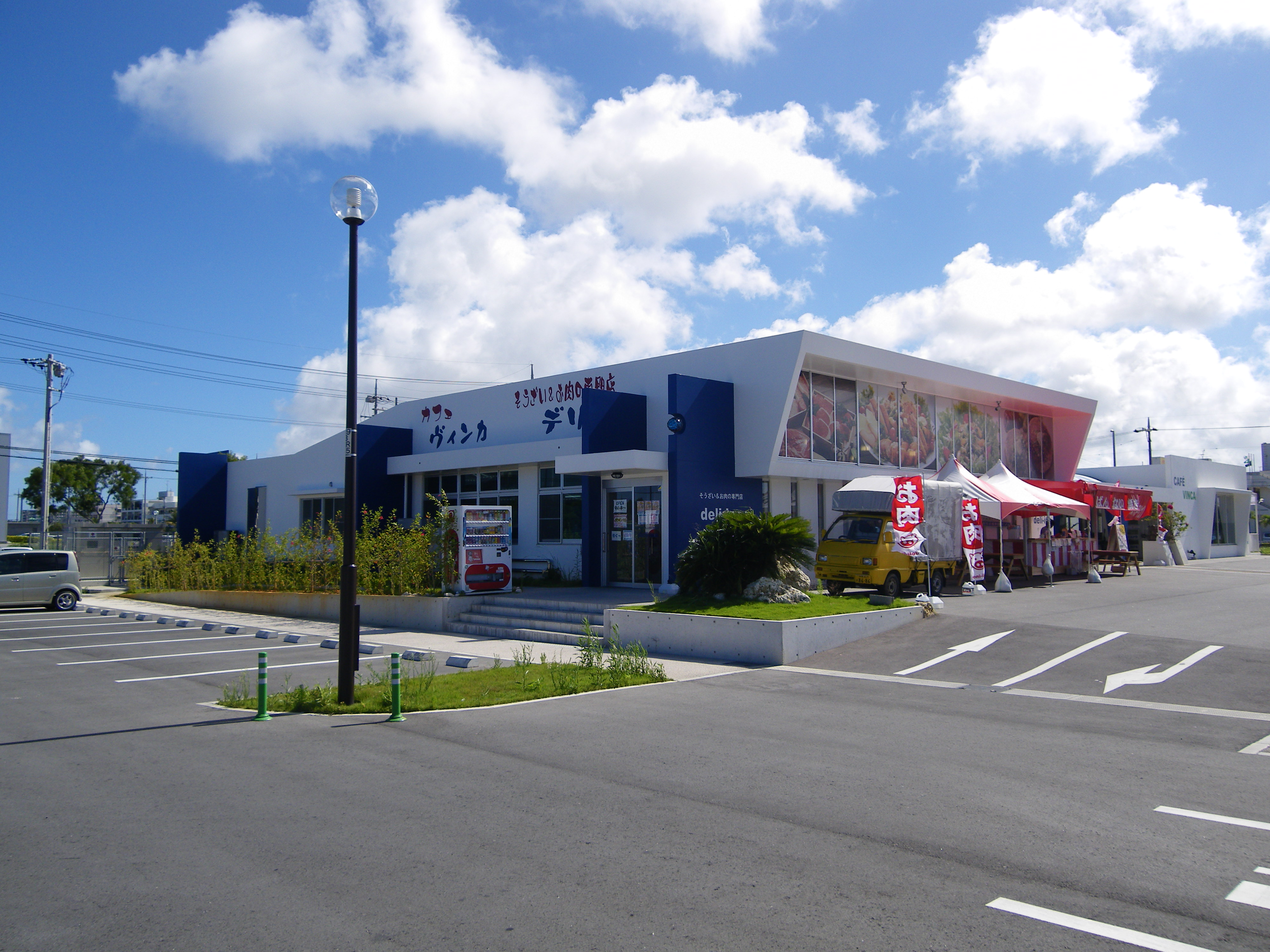 This is the restaurant in Roadside Station Itoman.